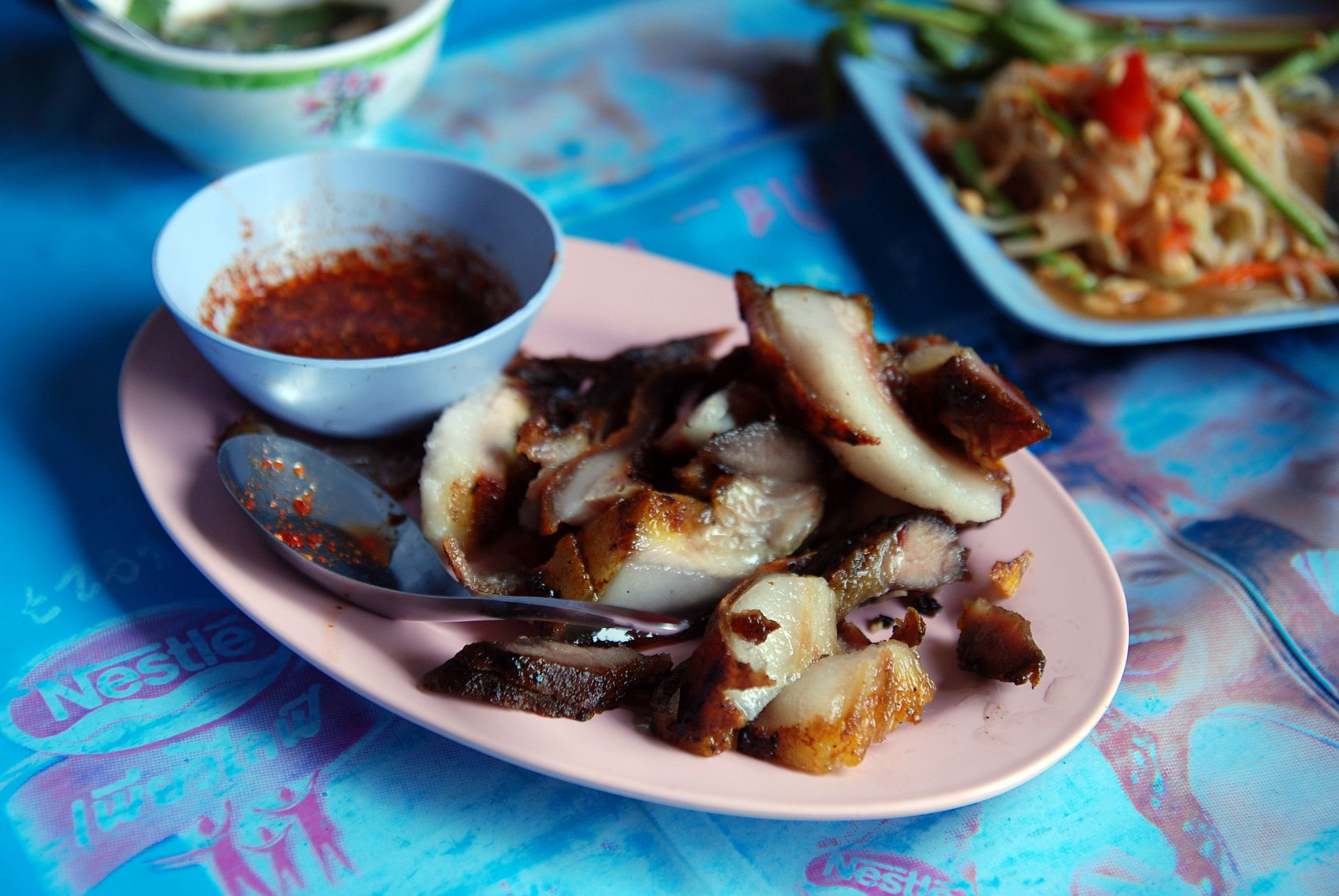 Mu yang (Thai script: หมูย่าง) is a popular grilled pork dish, originally from the Isarn region of Thailand. In Thailand, the fatty parts of the belly and neck, together with the skin, are preferred over lean meat. It is served with nam chim chaeo (Thai script: น้ำจิ้มแจ่ว), a spicy dipping sauce made with dried chillies and roasted, then pounded, sticky rice. In the background is a plate of som tam Thai (Thai papaya salad).